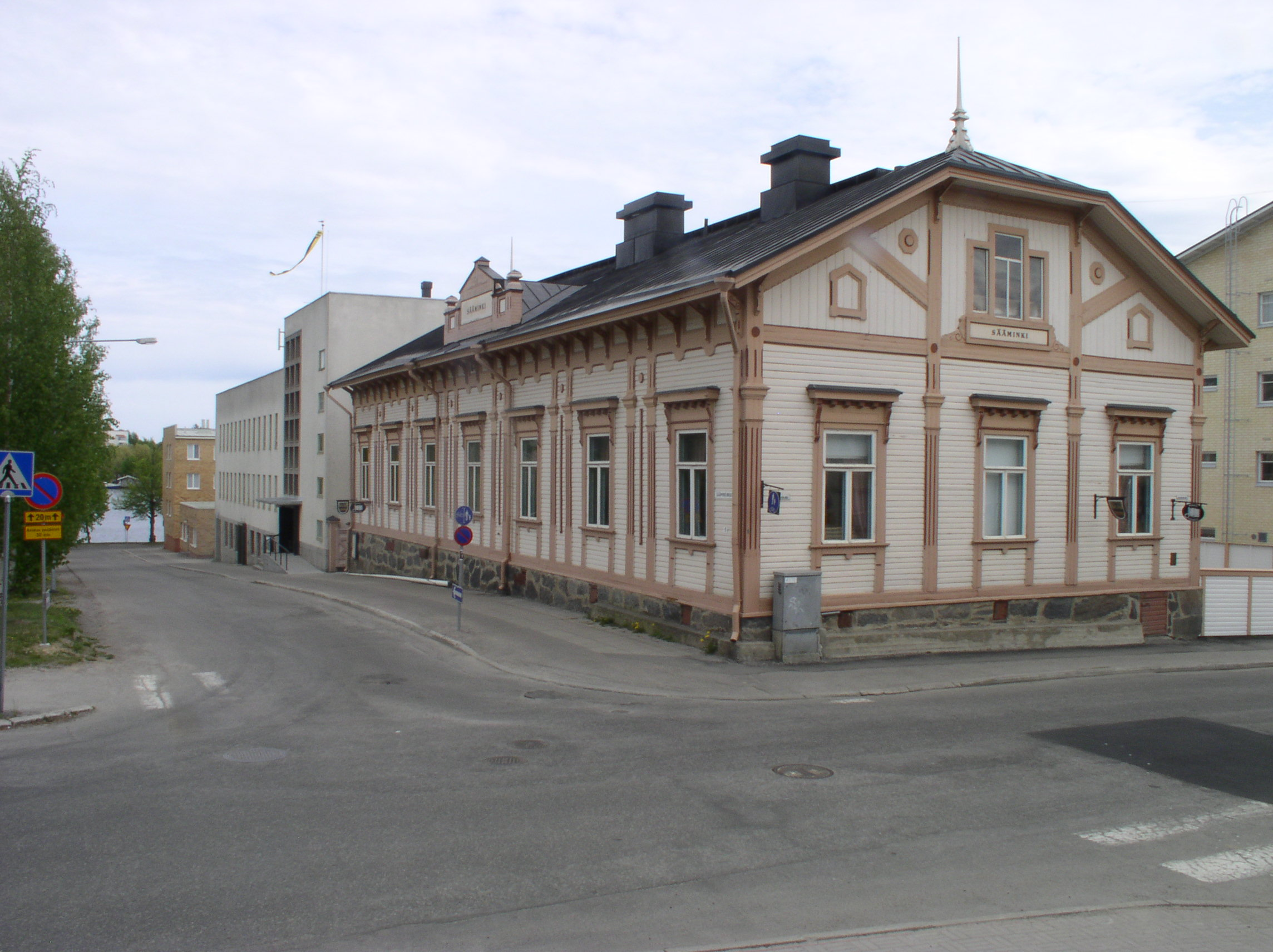 Sääminki House, the municipal house of the former municipality of Sääminki in Savonlinna, Finland.